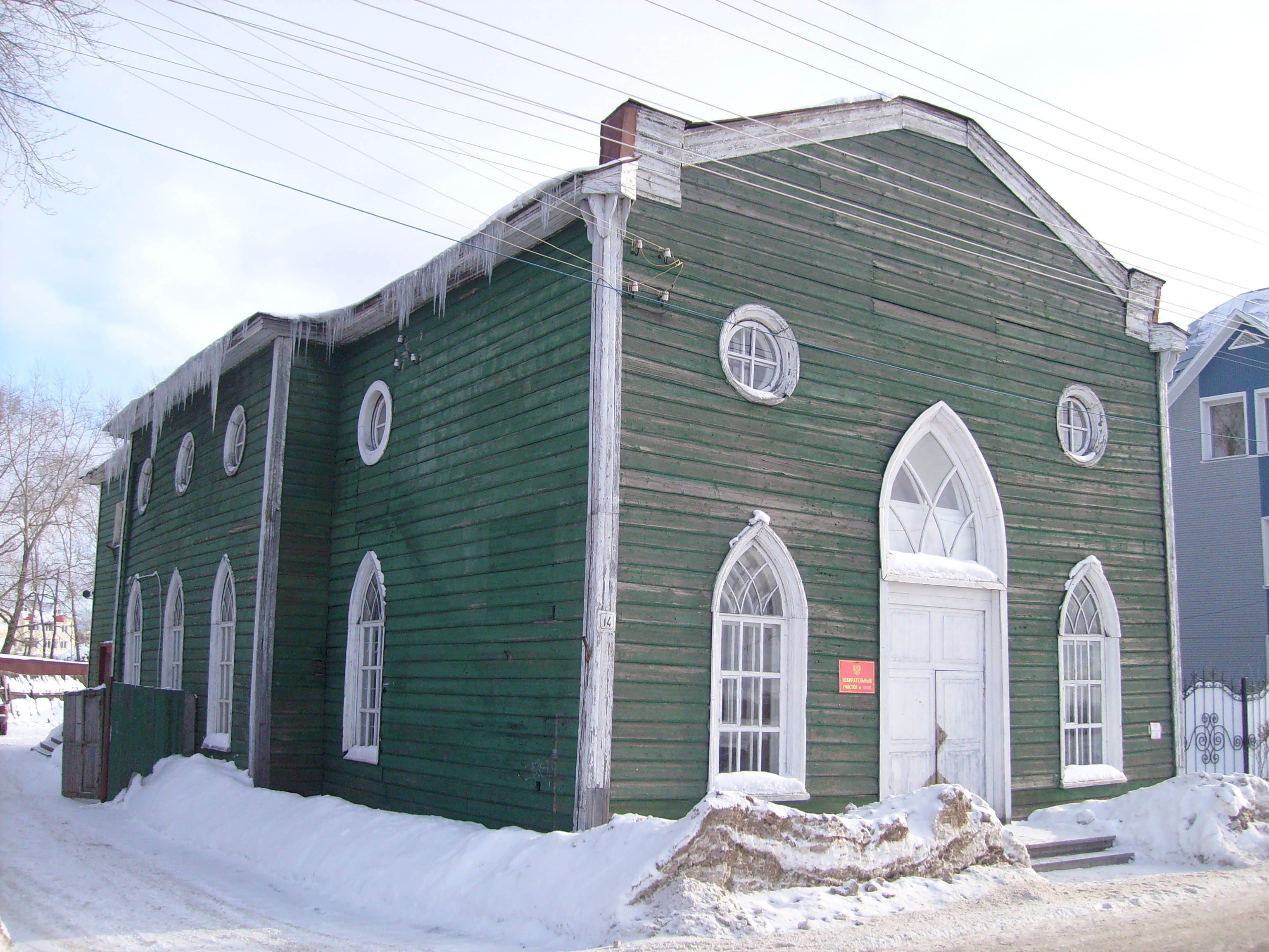 Arkhangelsk, Anglican church, built in 1853